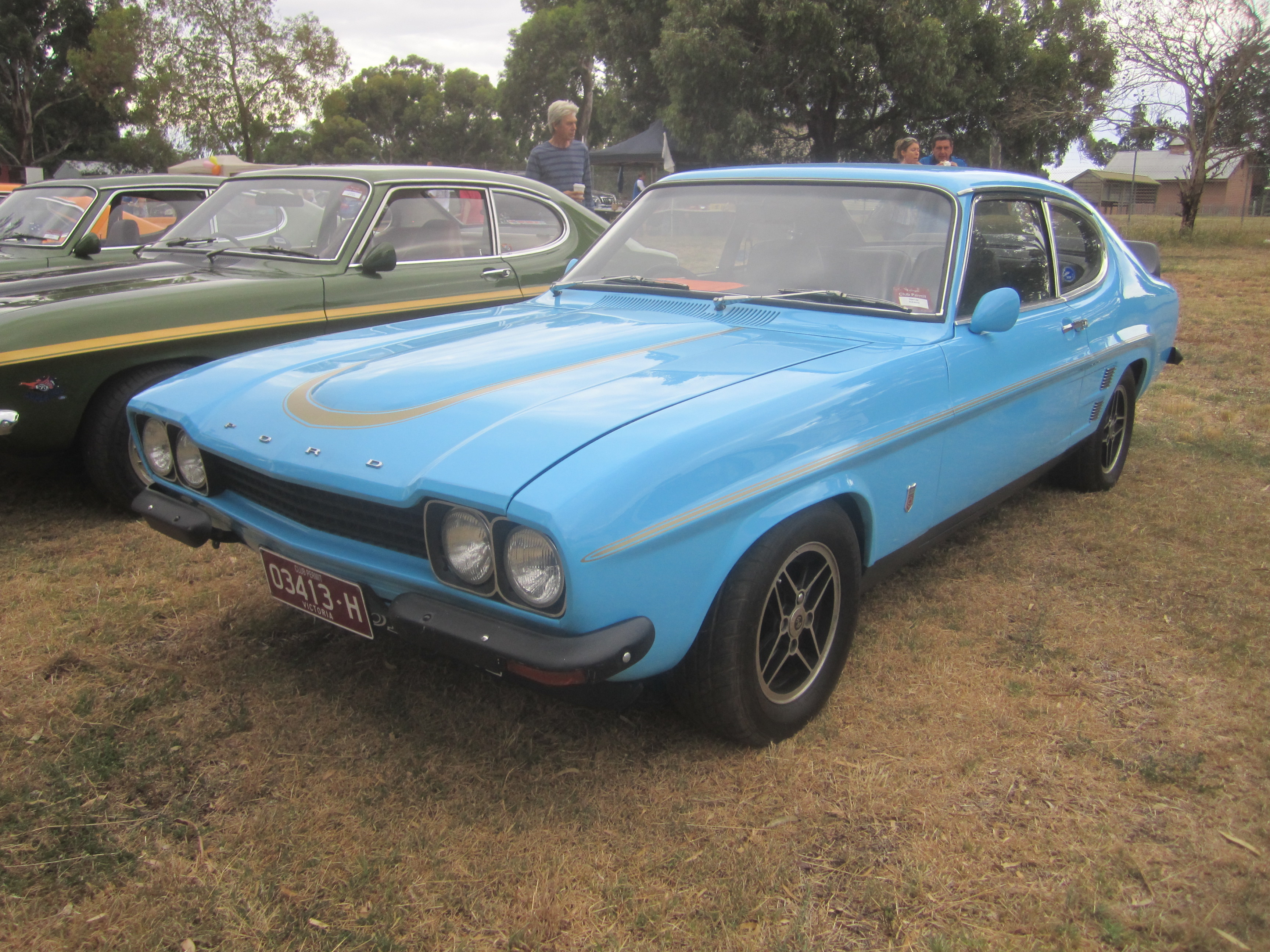 The European Capri was their Pony car with Cortina running gear, the MkI was built from 1969-74 (facelift in 1970) It was available with V4 engines in Germany and the 2300GT In the UK it was the 1.3 and 1.6 4 cyl Kent or the 3000 V6 In 1970 the 2000 Pinto engine was used and the race ready RS2600 was available. The Essex RS3100 replaced the Cologne RS2600 in 1973. Built for racing, only 250 were made and 50 imported to Australia. The Mk I (pre facelift) was also produced in Australia from 1969-72 in 1600 Deluxe, the 1600GT, (later called the XL) when the 1970 3000 V6 GT was introduced.